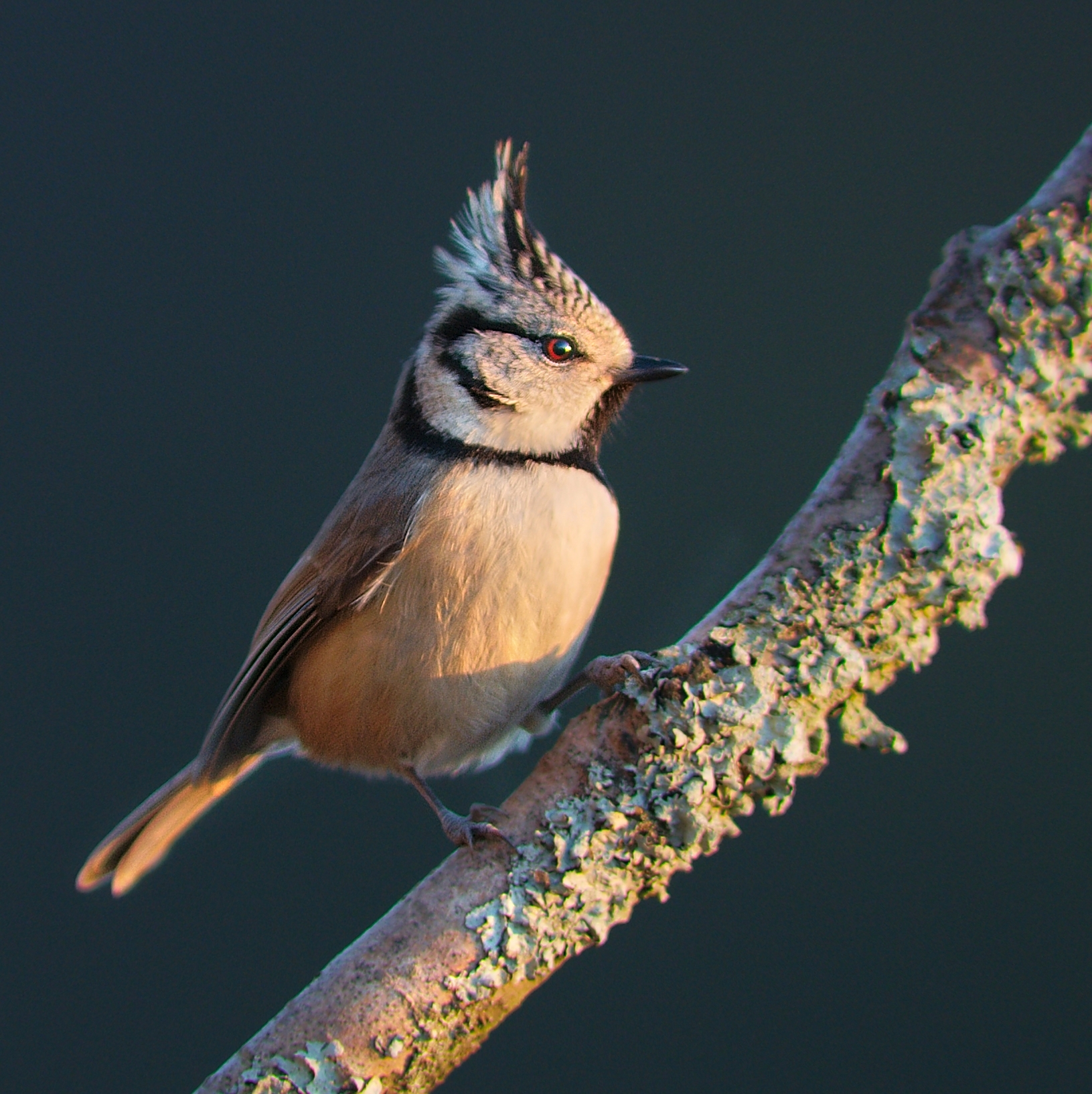 Crested Tit Parus cristatus.